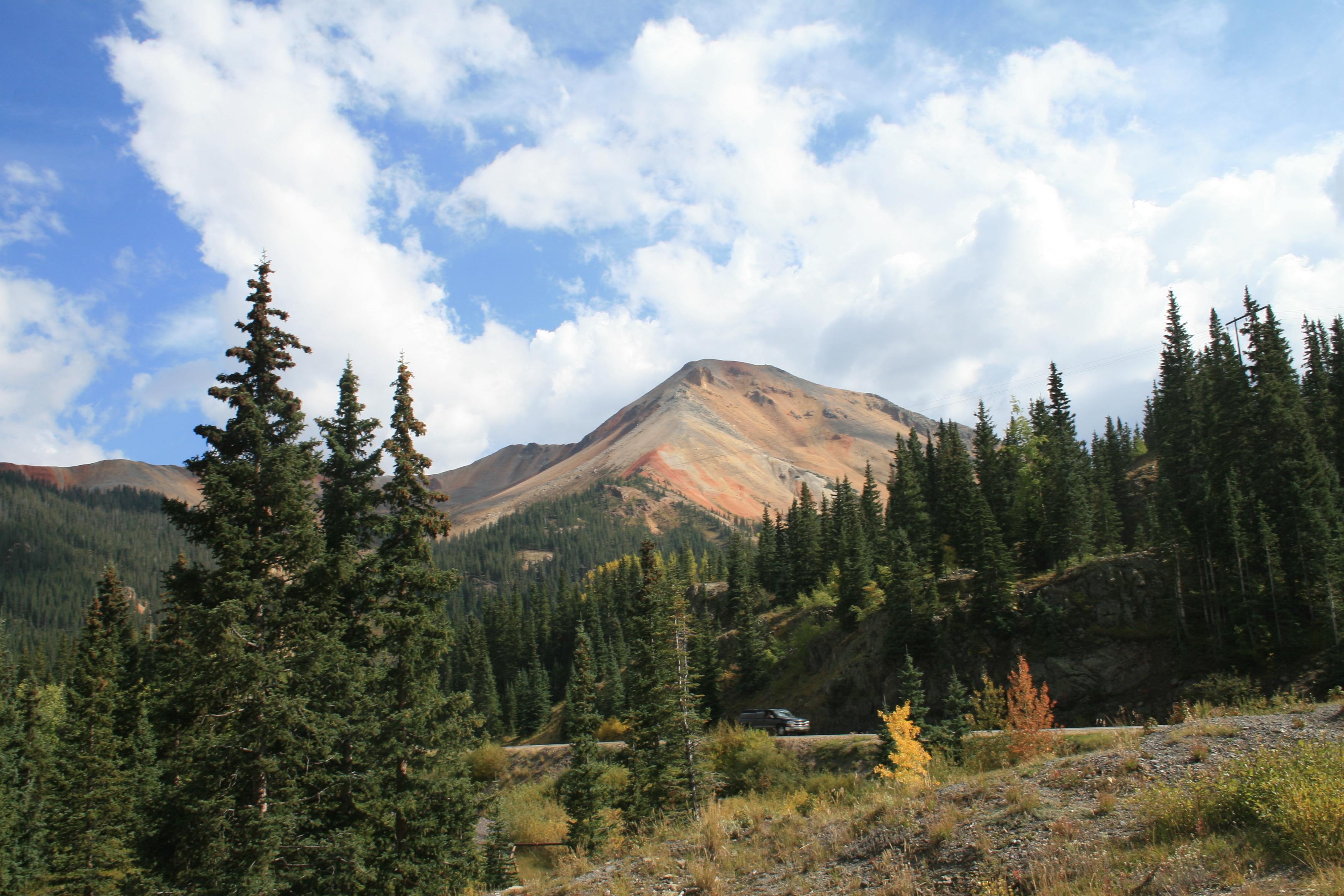 Red Mountain Pass, CO, USA View of Red Mountain #3, 12,890 ft. Trees in foreground are Picea engelmannii.